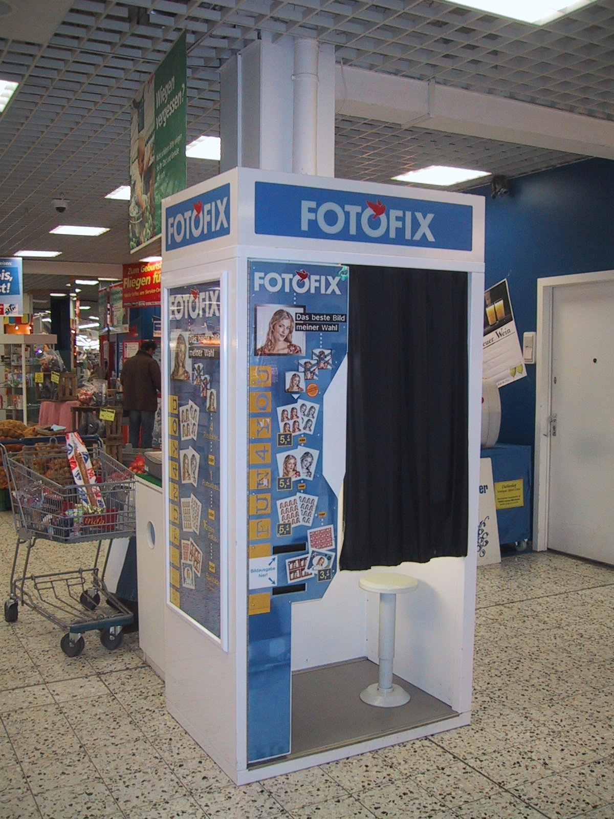 A Fotofix (subsidiary of Photo Me) booth in Germany, 2005.